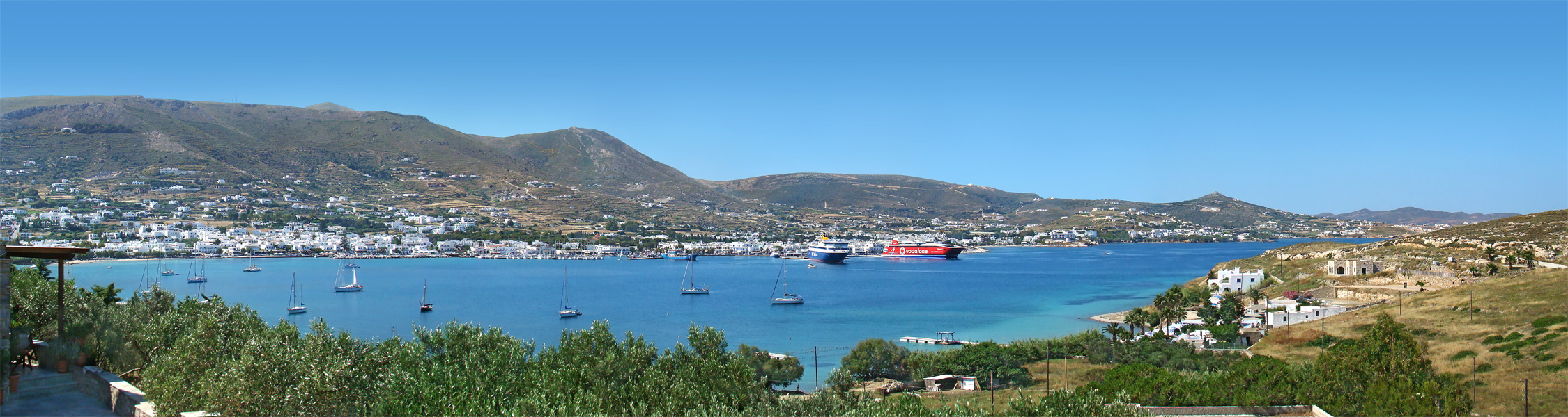 Parikia, Paros, Greece.